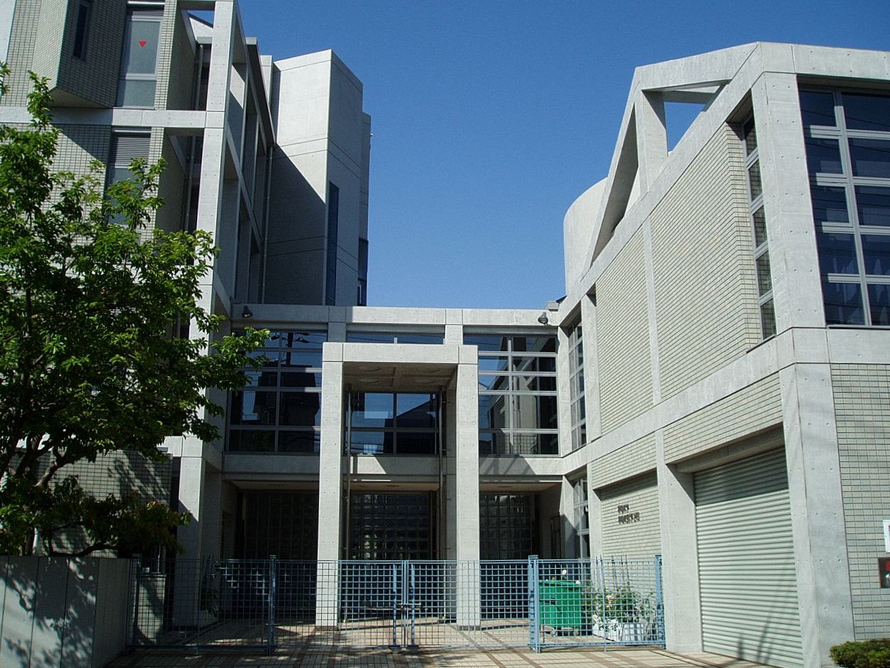 Bldg. #2, Kobe Yamate University & Kobe Yamate College located in Chuo-ku, Kobe, Hyogo, Japan.